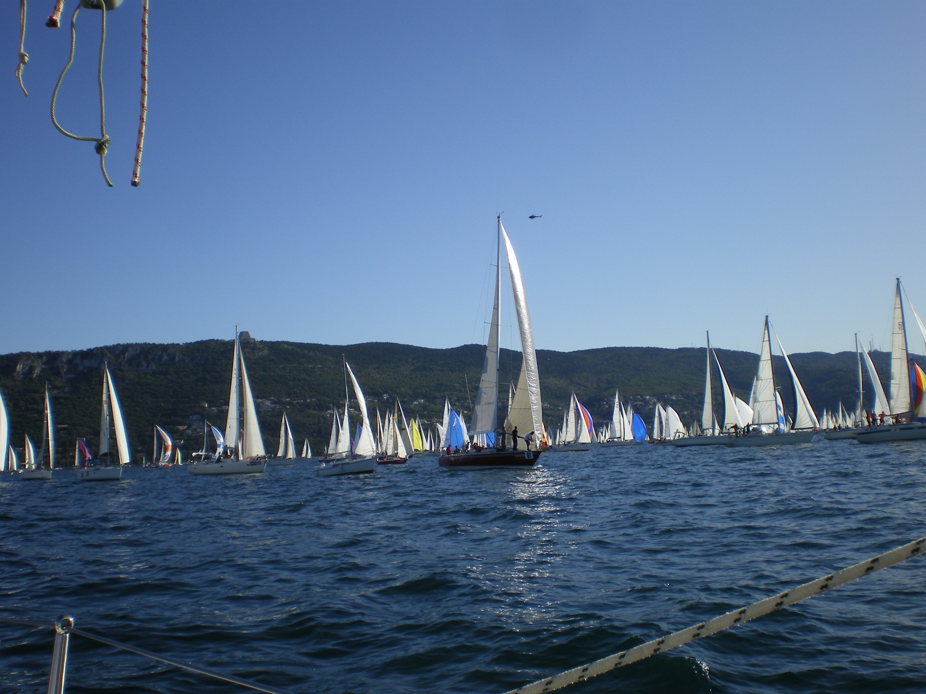 41st Barcolana Regatta